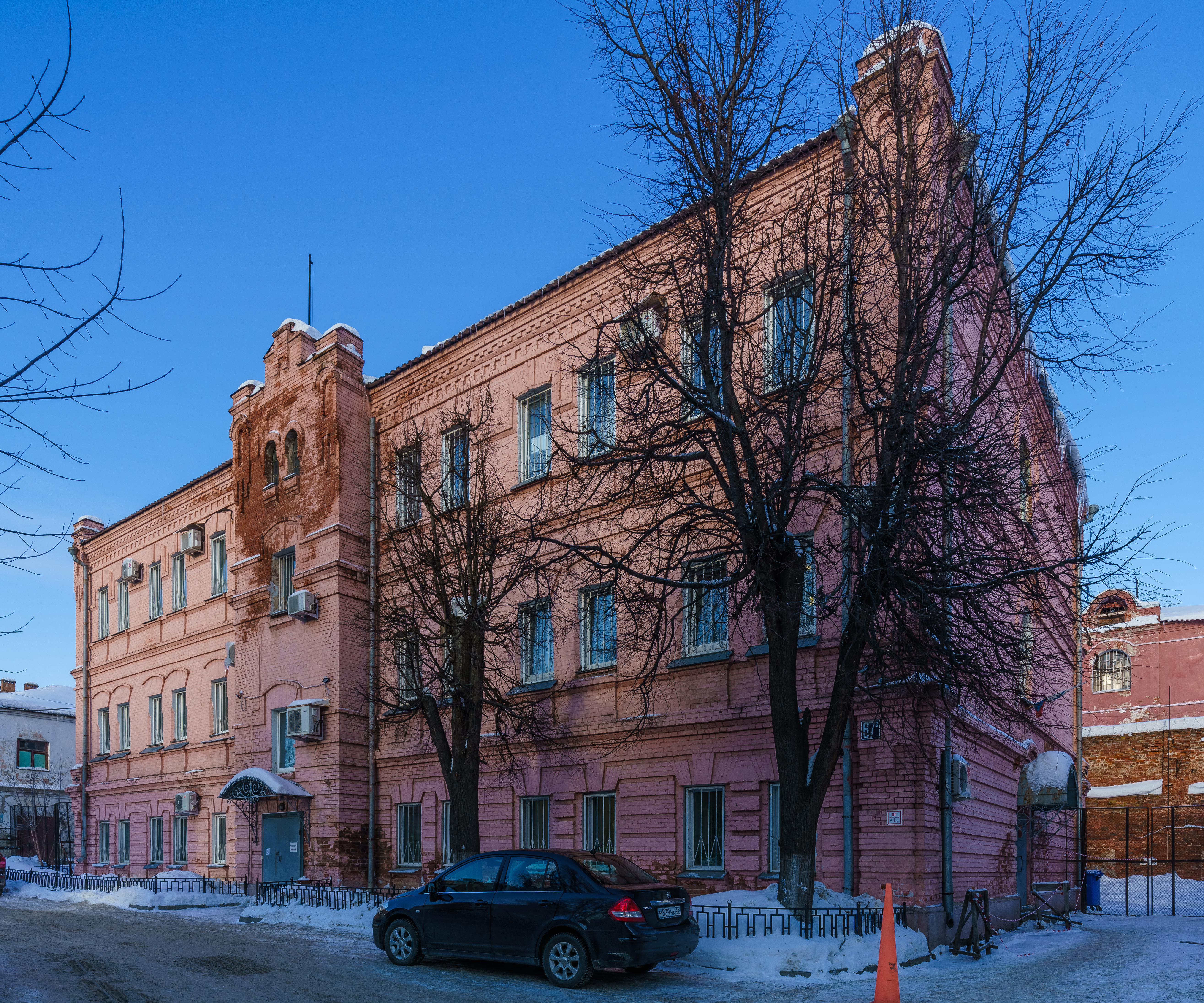 Vladimir Central Prison (view from the street) in Vladimir, Russia